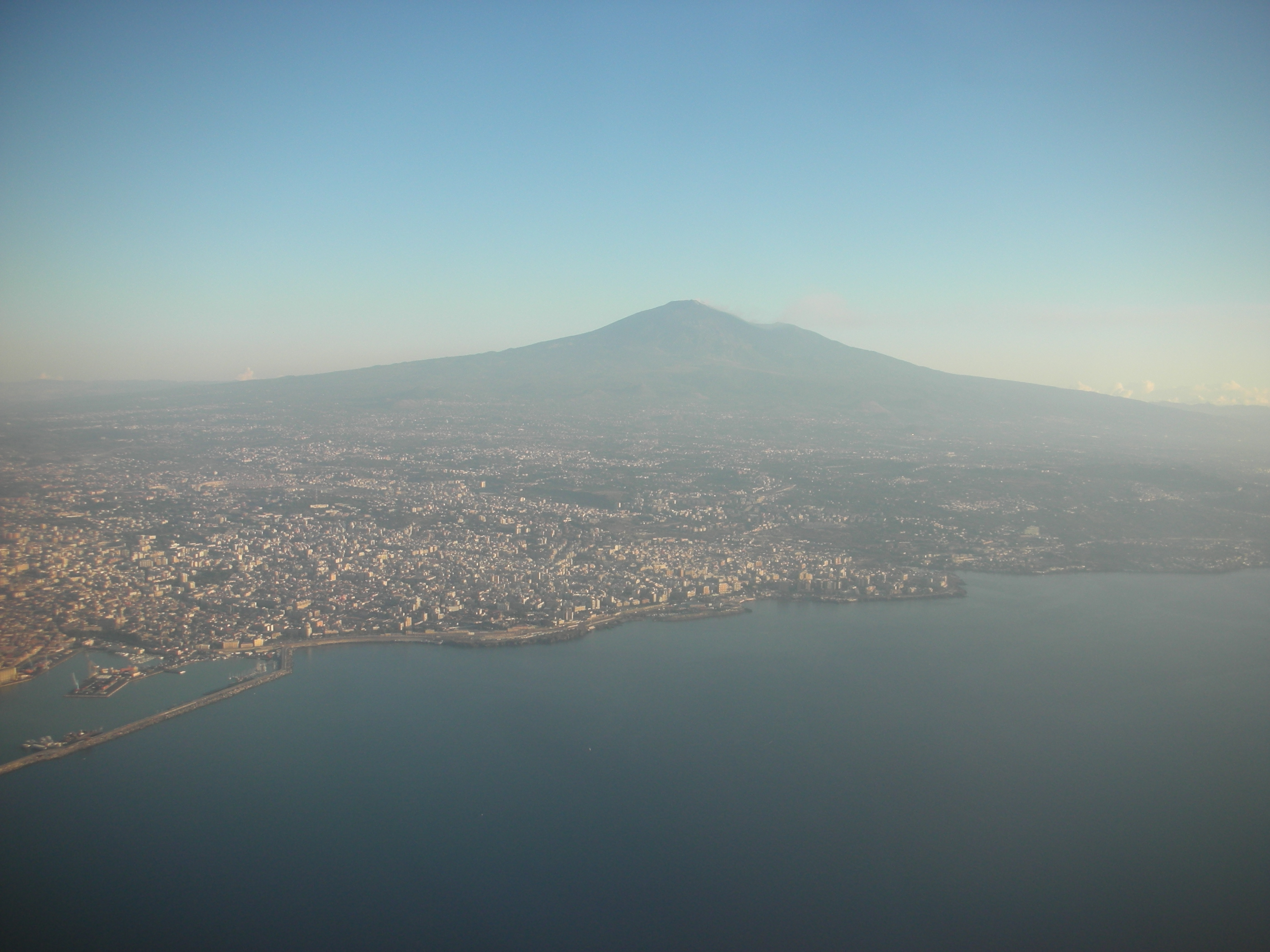 Catania from the airplain.